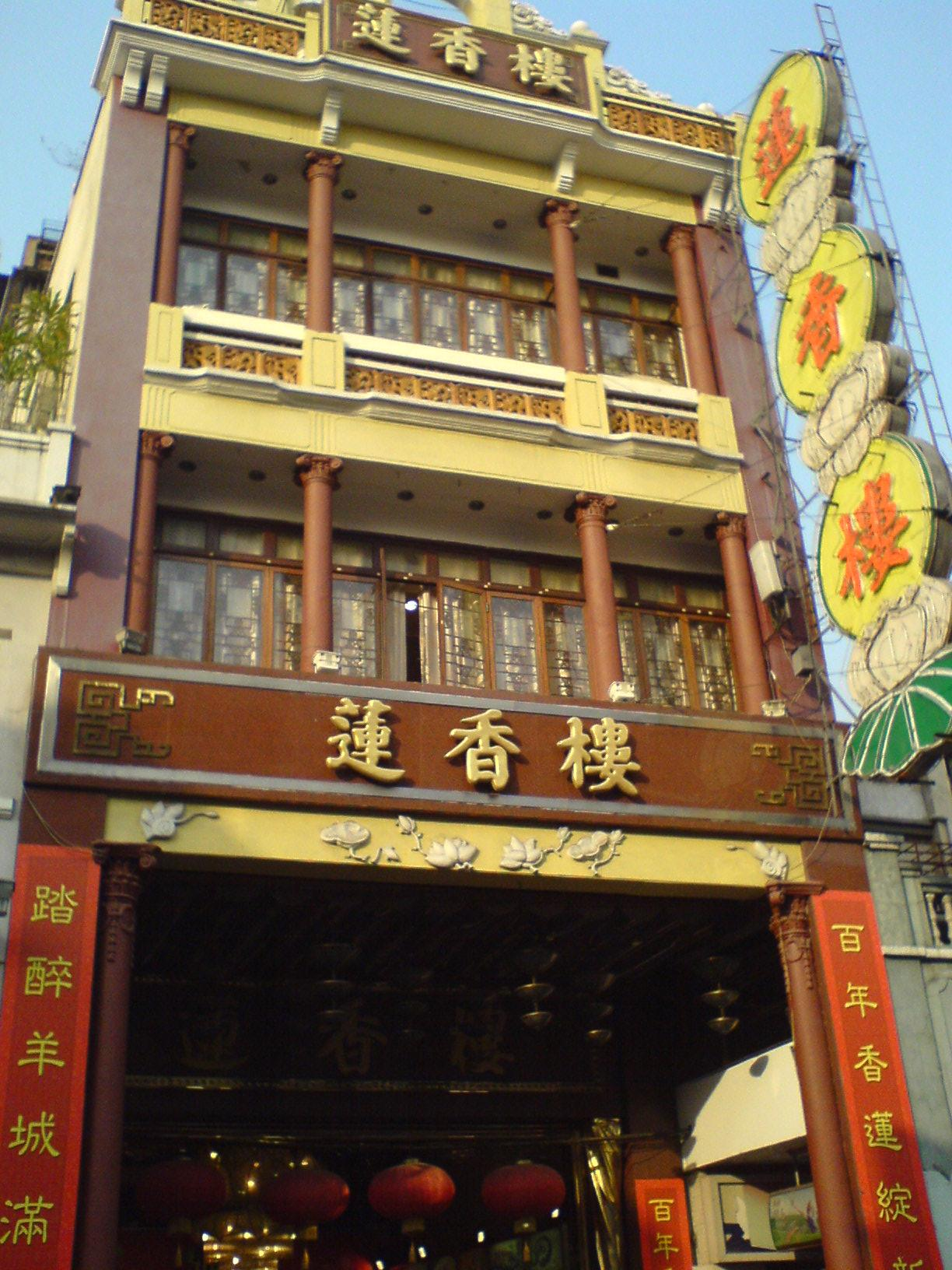 The Lin Heung Tea House(Liangxianglou) in Sheung Ha Kau(Shangxia Jiu) Pedestrian Street, Saikwan, Canton, China.